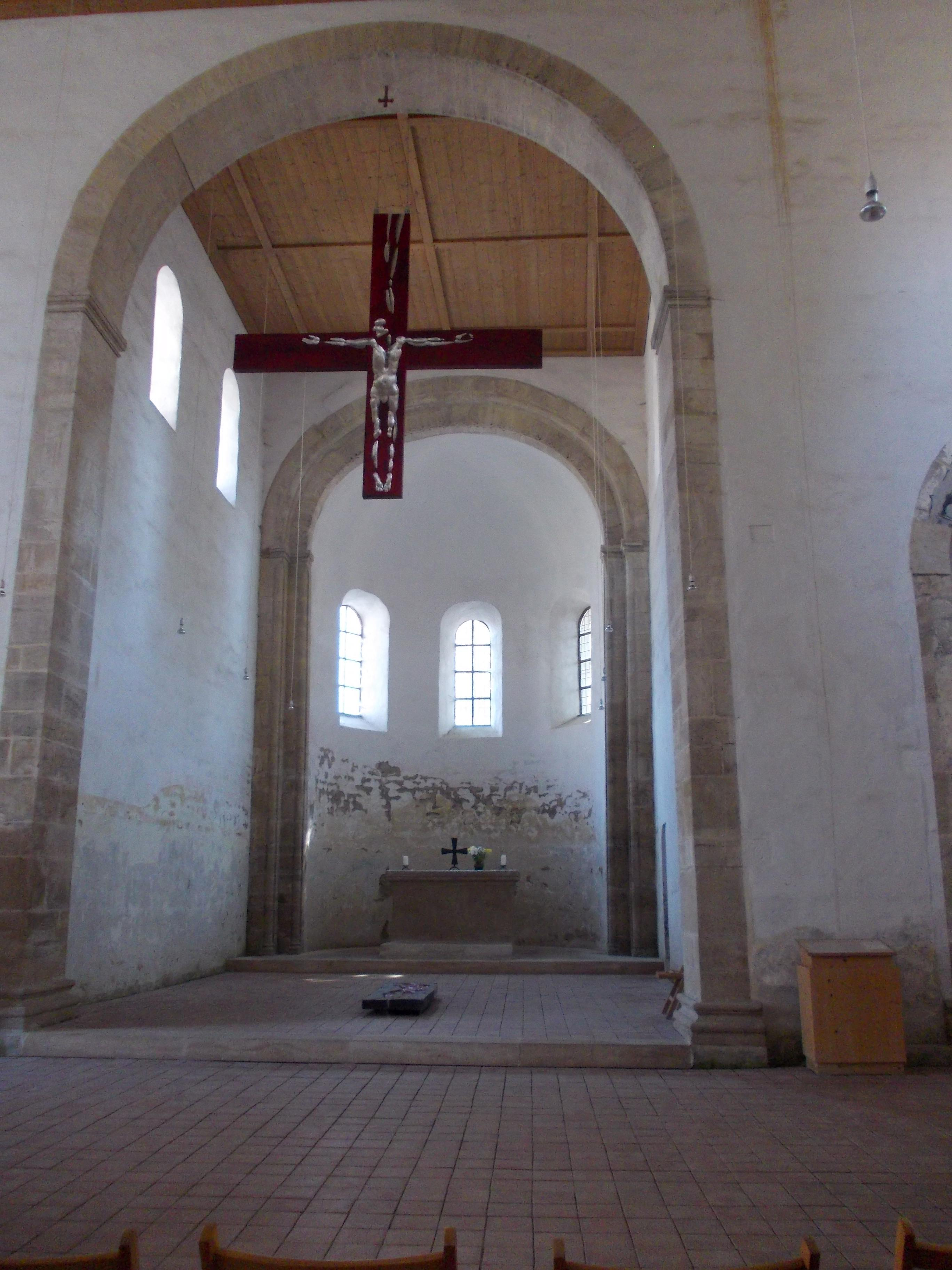 St. Thomas' Church in the Neumarkt quarter in Merseburg (district: Saalekreis, Saxony-Anhalt)